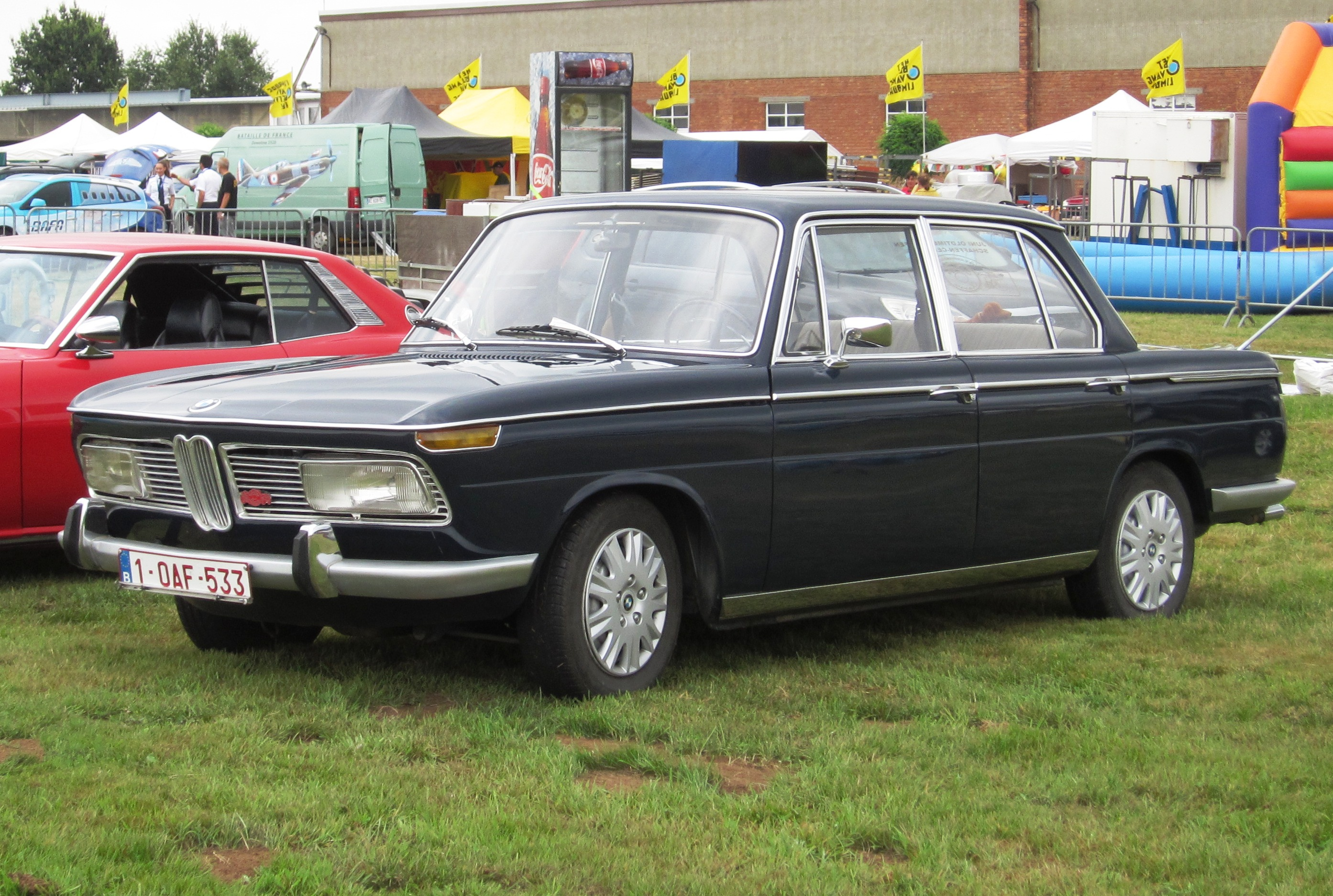 BMW 2000 1990cc built ca 1970 at Schaffen-Diest Fly-Drive 2013